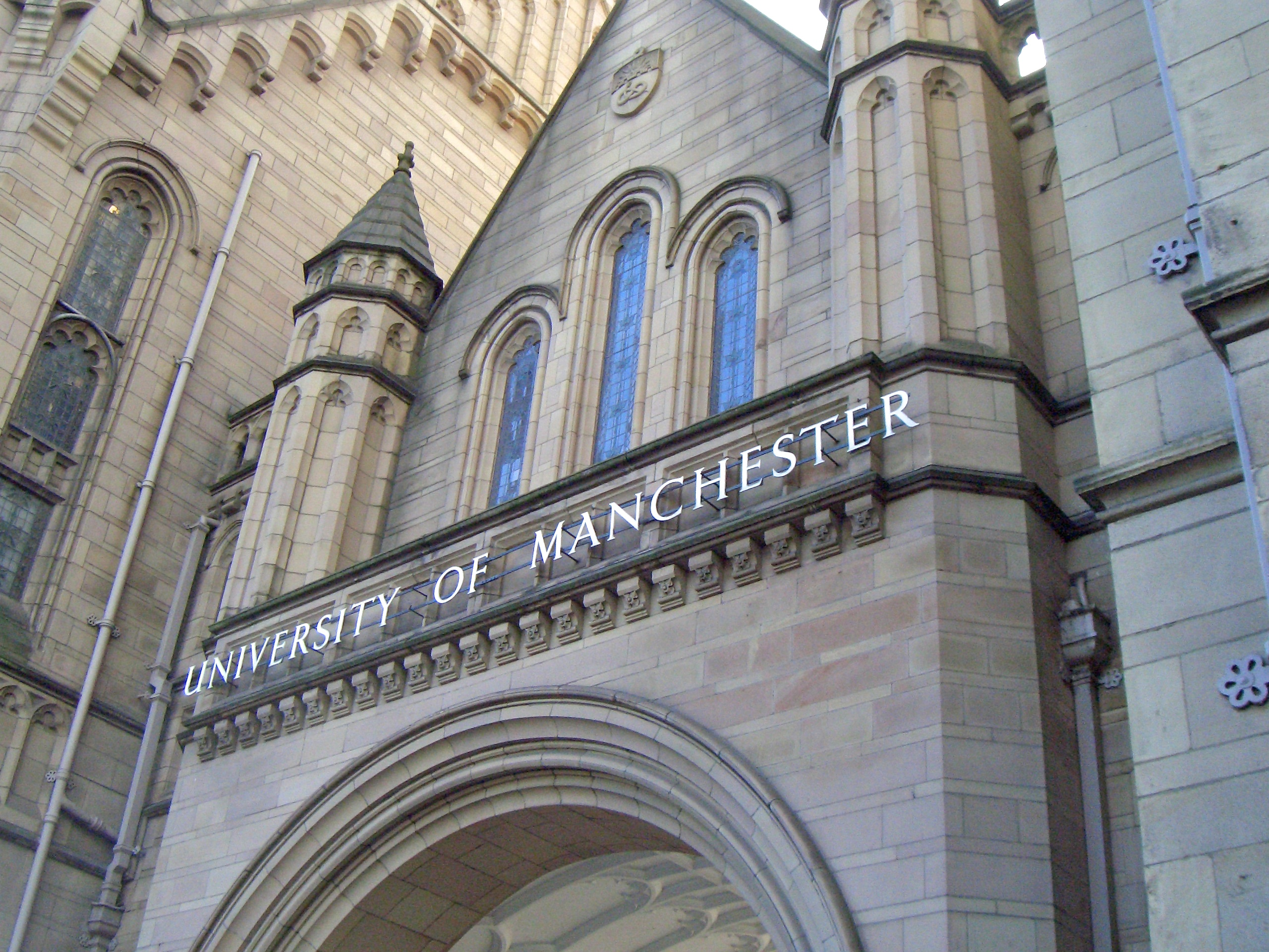 The "University of Logo" writing on Whitworth Building